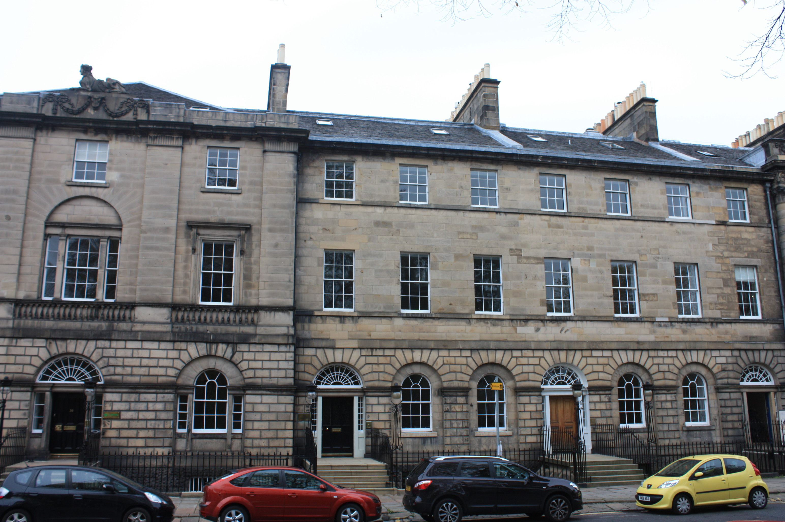 8,9,10 Charlotte Square, Edinburgh